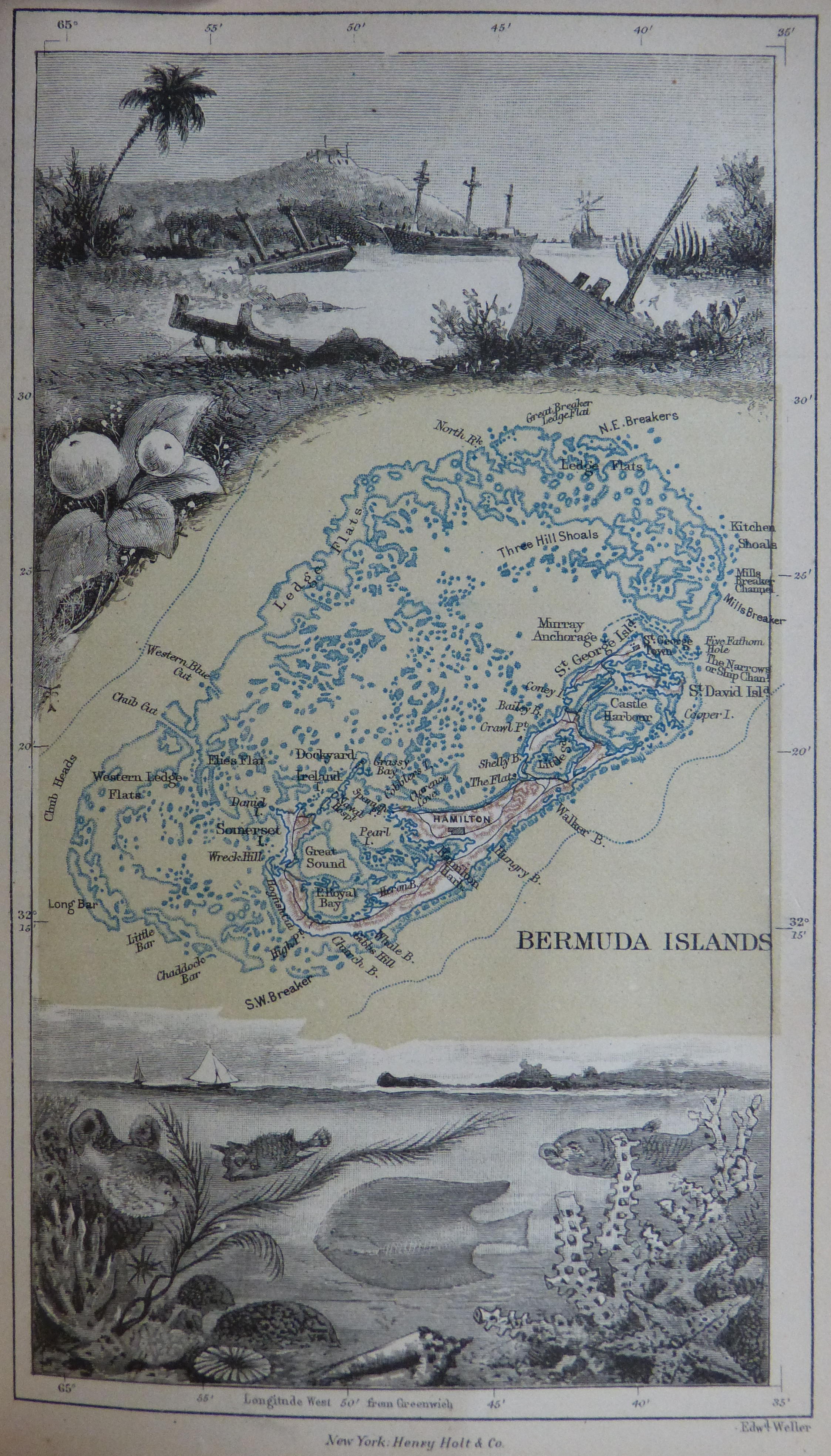 A page from "In The Trades, the Tropics and The Roaring Forties", by Anna Brassey, Baroness Brassey, with illustrations engraved on wood by G. Pearson and J. Cooper after drawings by R. T. Pritchett. First published by Longmans, Green, and Company, London, and H. Holt and Company, New York (1885). The page shows a map of Bermuda and the surrounding reefs, adorned with Bermudian scenes. Anna Brassey visited Bermuda in 1883.